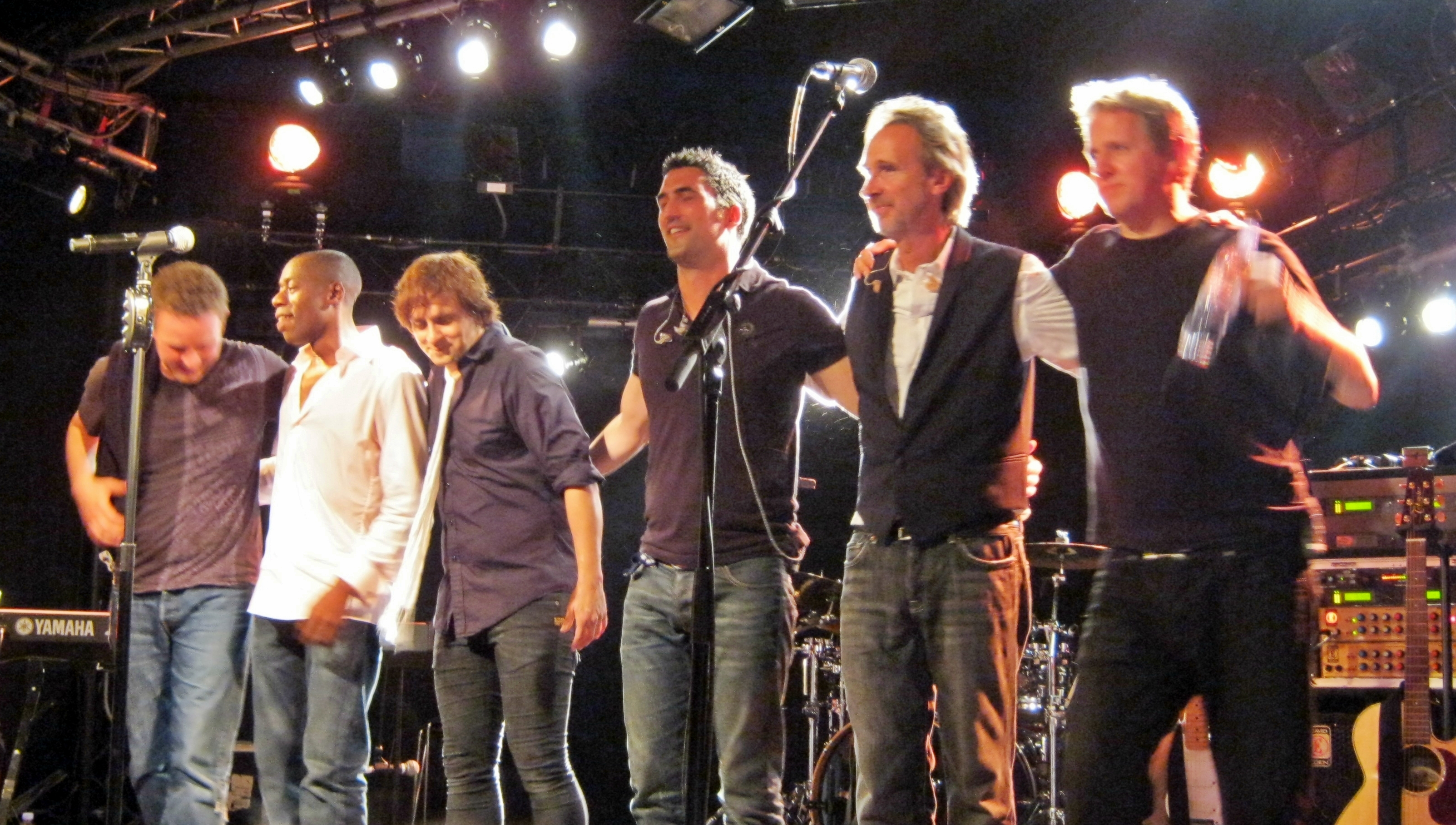 Mike & the Mechanics in concert